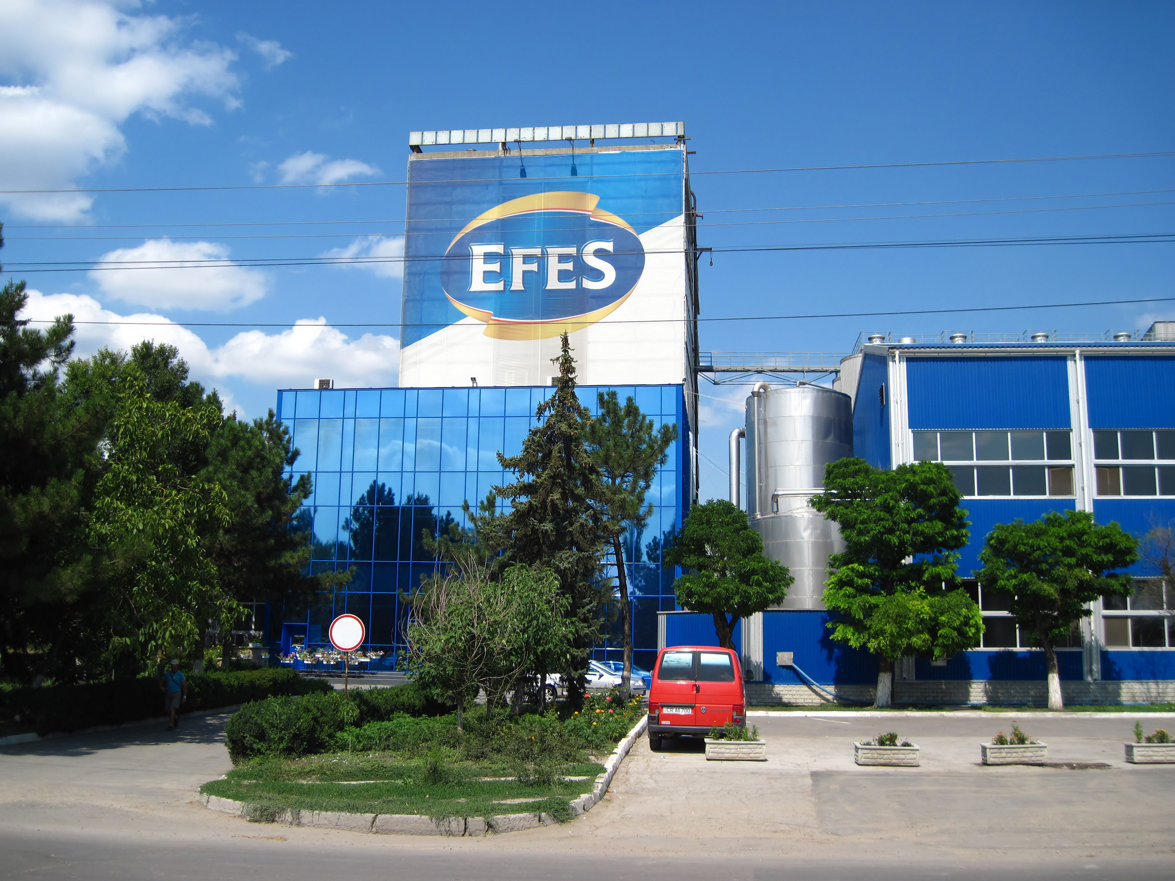 Efes Vitanta Moldova Brewery